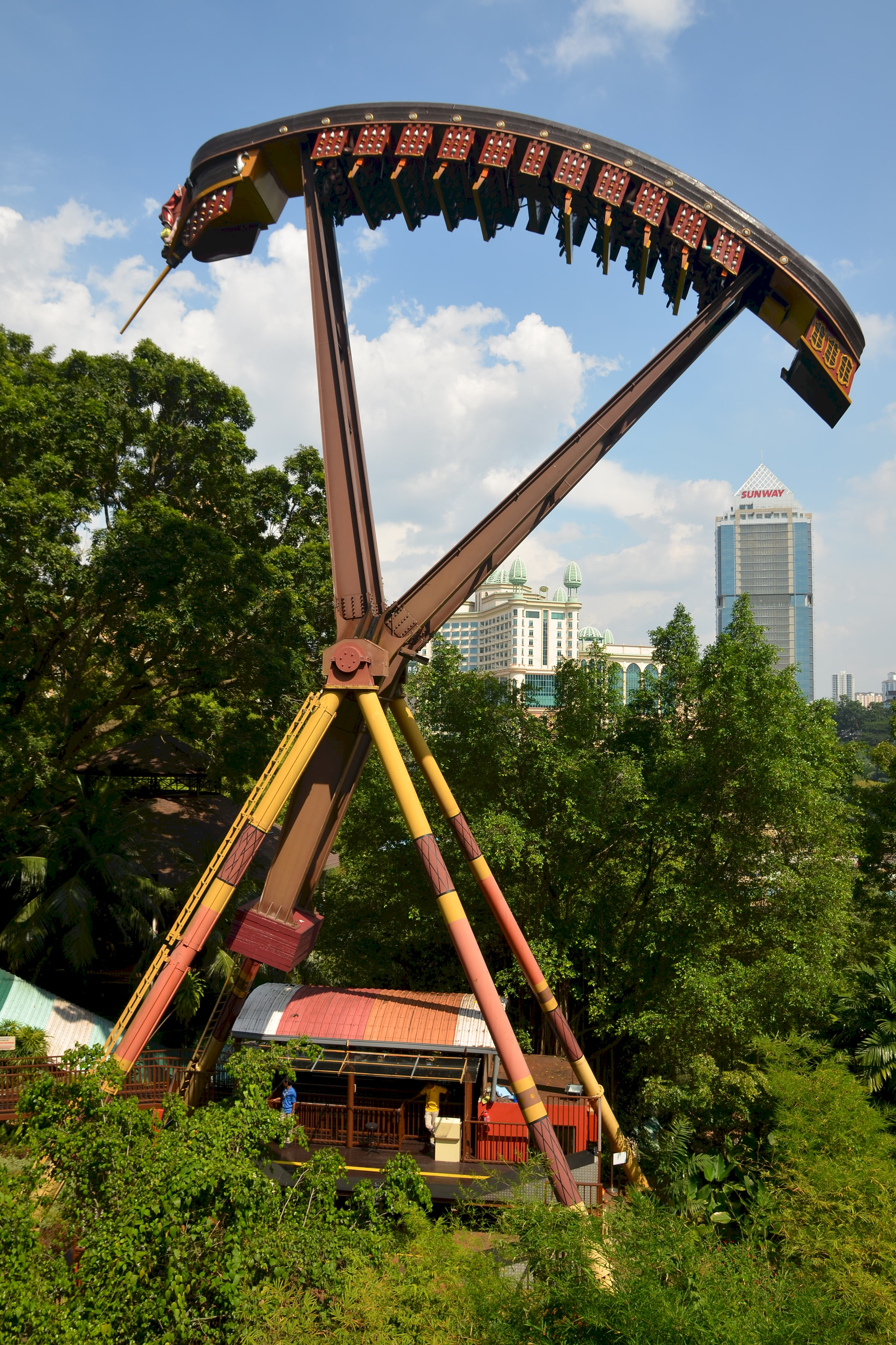 The Pirate Ship ride at Sunway Lagoon viewed from the canopy walkway.